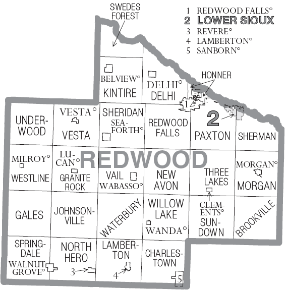 Map of Redwood County, Minnesota, United States with township and municipal boundaries